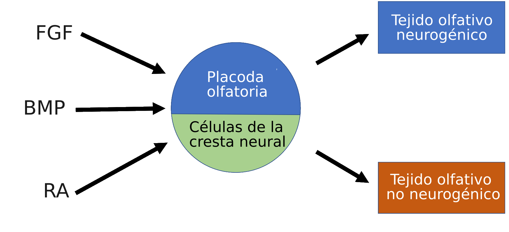 Embryonic morphogen signaling on olfactory placode and neural crest cells contributes to formation of neurogenic and non-neurogenic tissue of the olfactory epithelium.